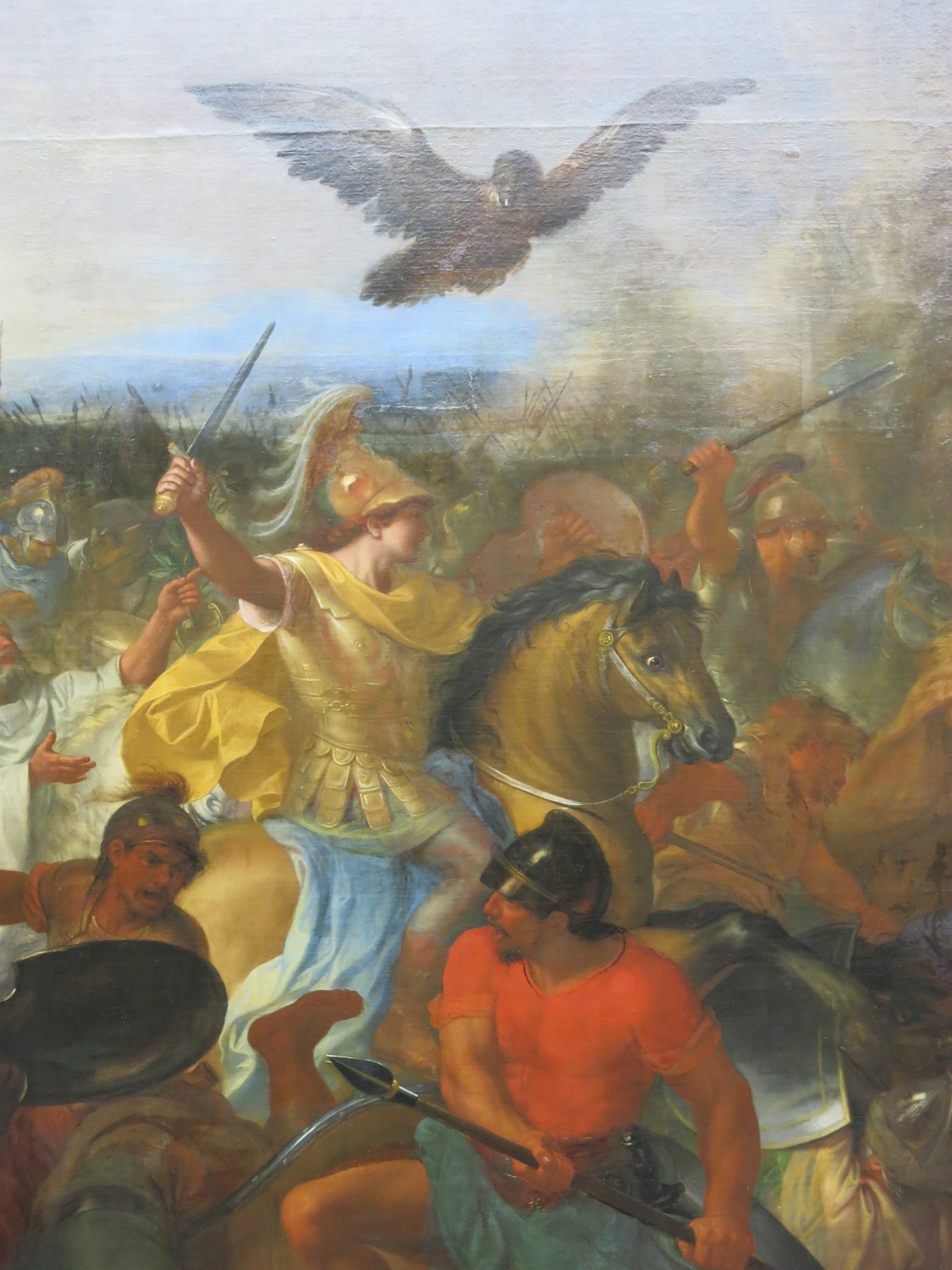 Alexander with an eagle